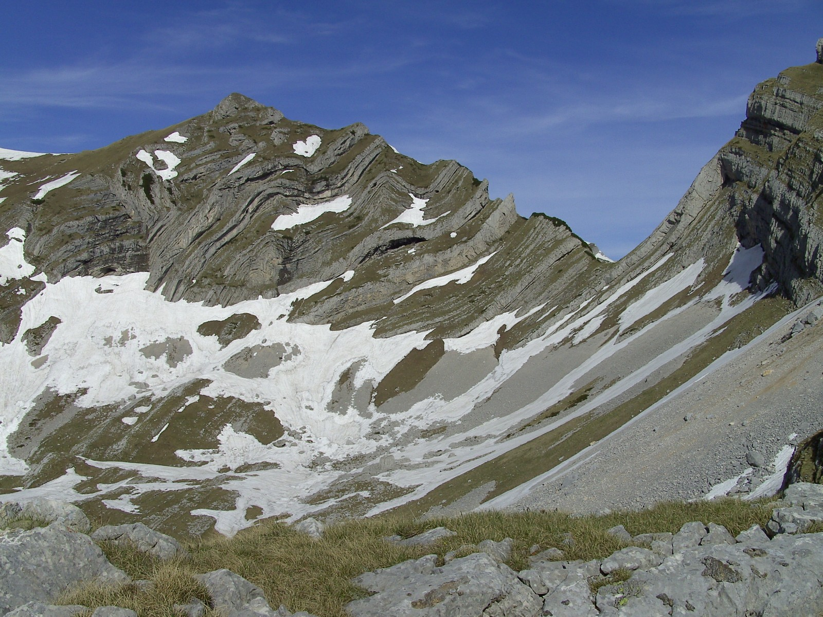 Šareni Pasovi hills in the Durmitor mountains, Montenegro